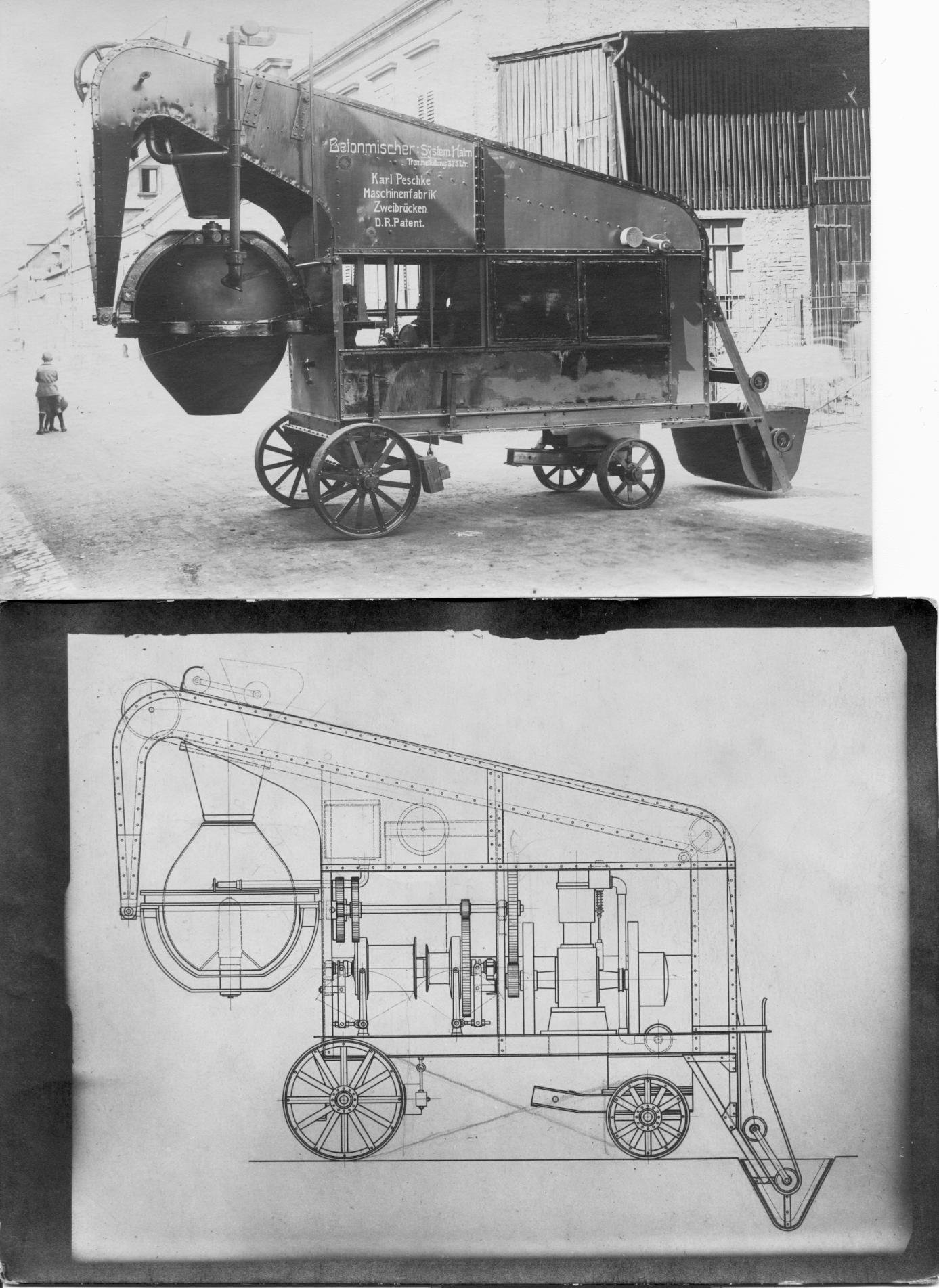 first concrete mixer worldwide with gimbal mounted revolving drum by company PEKAZETT (foto + drawing)